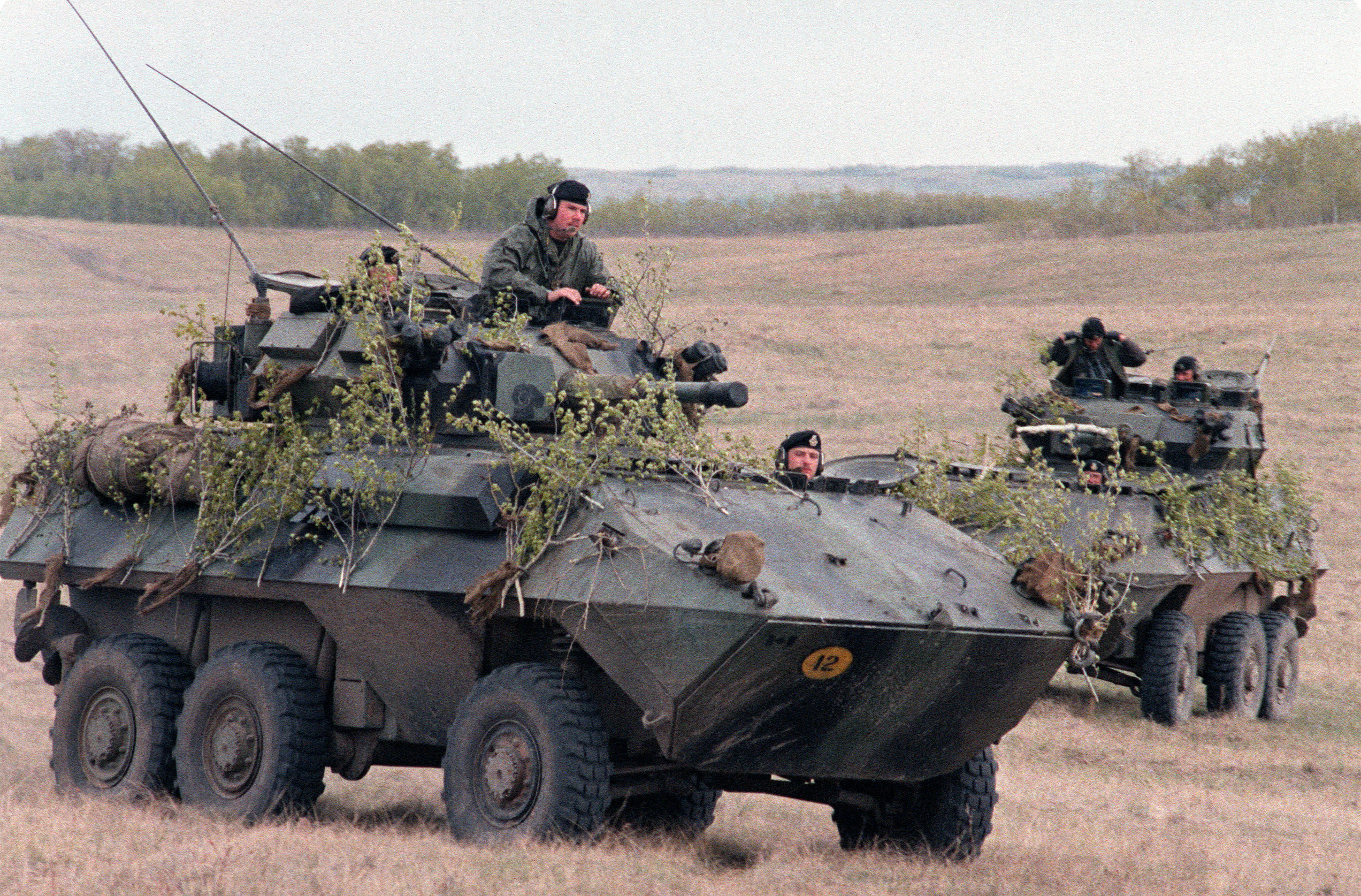 A pair of Canadian army COUGAR wheeled fire support vehicles maneuvers in a field during the combined United States/Canadian NATO exercise RENDEZVOUS '83. Location: CAMP WAINWRIGHT, ALBERTA (AB) CANADA (CAN)